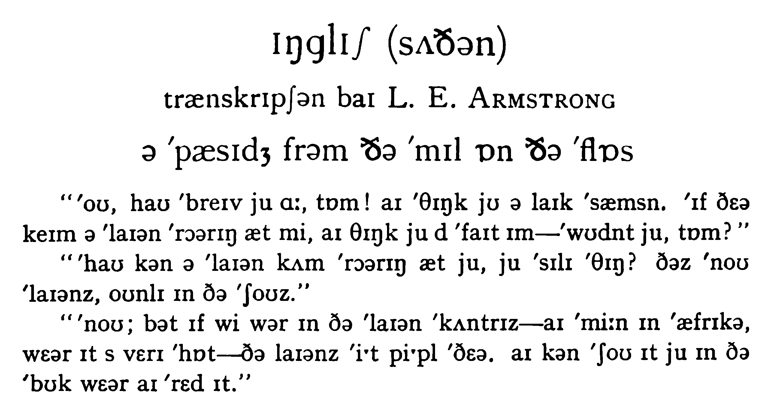 An excerpt from Lilias Armstrong's transcription of George Elliot's (1860) The Mill on the Floss, published in Textes pour nos élèves. Text is from Book 1, Chapter 5, and reads: "Oh, how brave you are, Tom! I think you're like Samson. If there came a lion roaring at me, I think you'd fight him, wouldn't you, Tom?" "How can a lion come roaring at you, you silly thing? There's no lions, only in the shows." "No; but if we were in the lion countries–I mean in Africa, where it's very hot; the lions eat people there. I can show it you in the book where I read it."